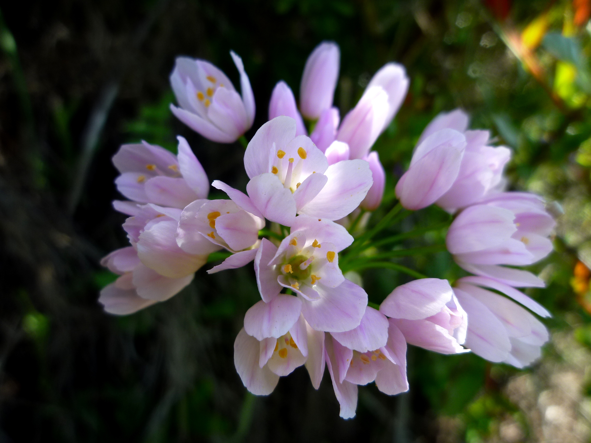 Allium roseum. In Torà (Segarra- Catalunya). On 590 m. altitude